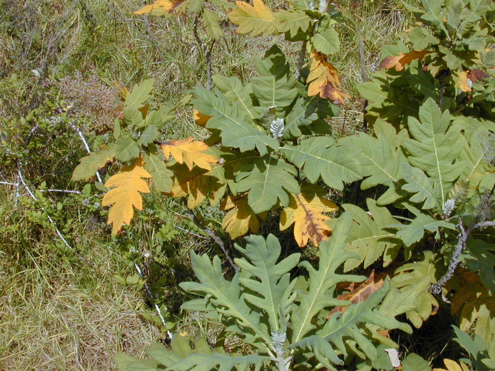 Bocconia frutescens (leaves). Location: Maui, Kula